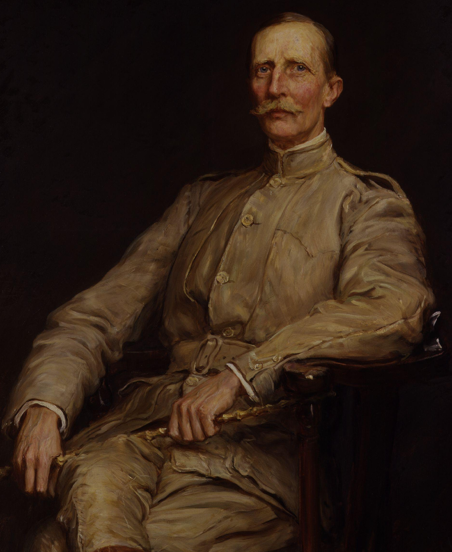 Sir George Dashwood Taubman Goldie, by Sir Hubert von Herkomer (died 1914), given to the National Portrait Gallery, London in 1931. All images in this batch have been confirmed as author died before 1939 according to the official death date listed by the NPG.